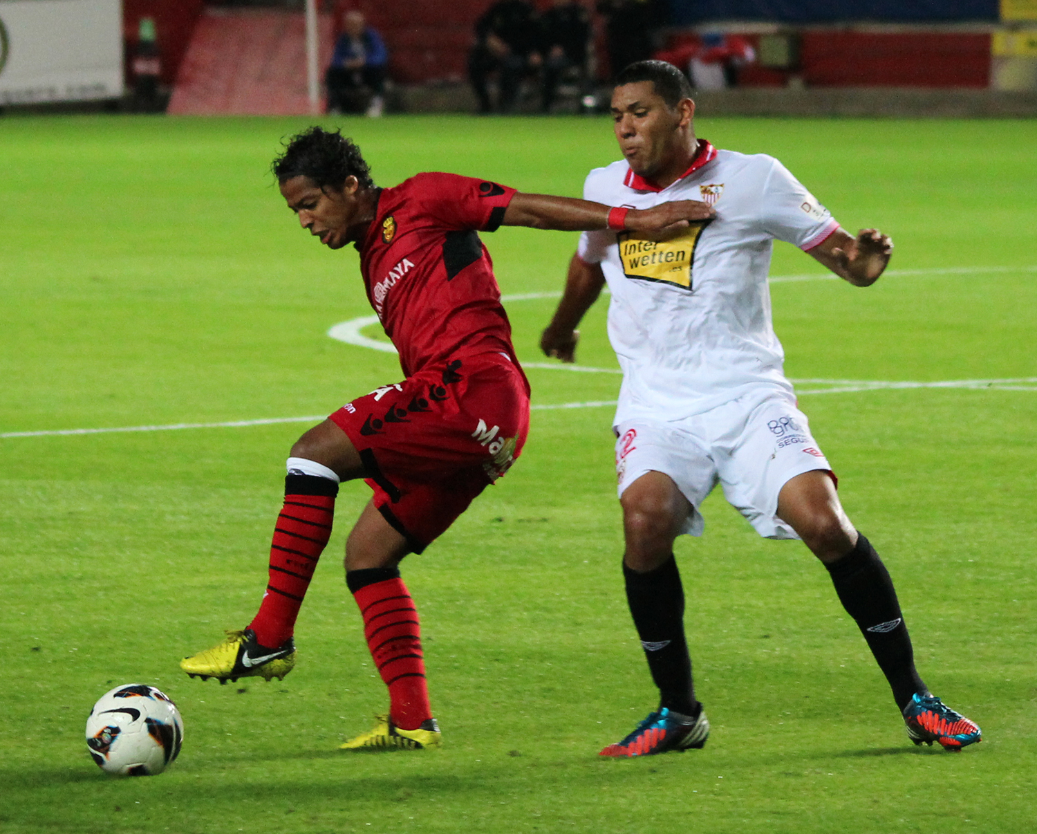 Mexican footballer who currently plays as an attacking midfielder for Spanish La Liga club RCD Mallorca